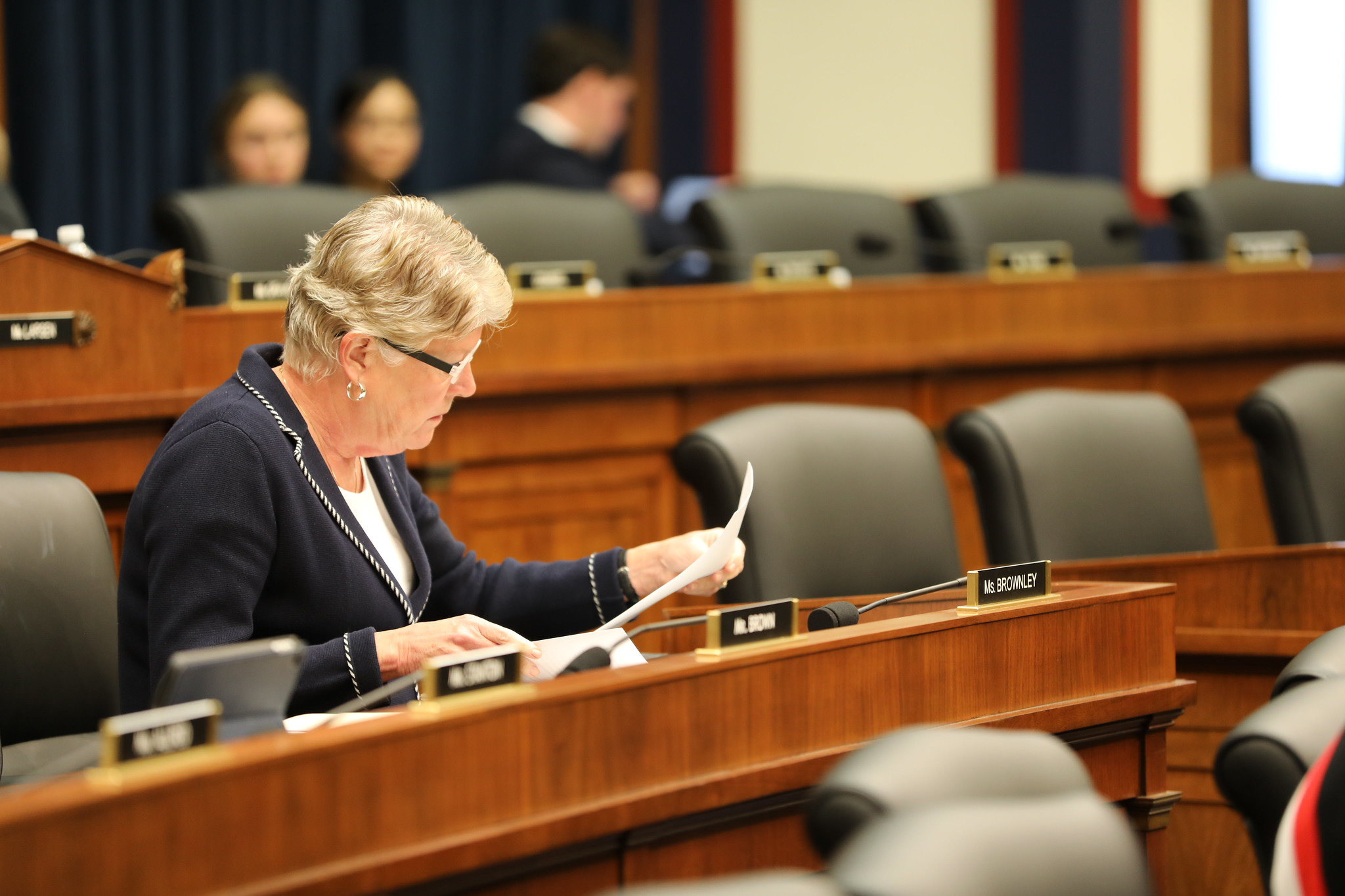 Yesterday, I attended a @TransportDems hearing where we discussed compensation, occupational safety, and health issues for airline groundworkers, as well as how to continue to ensure the safety of the traveling public and transportation workers.